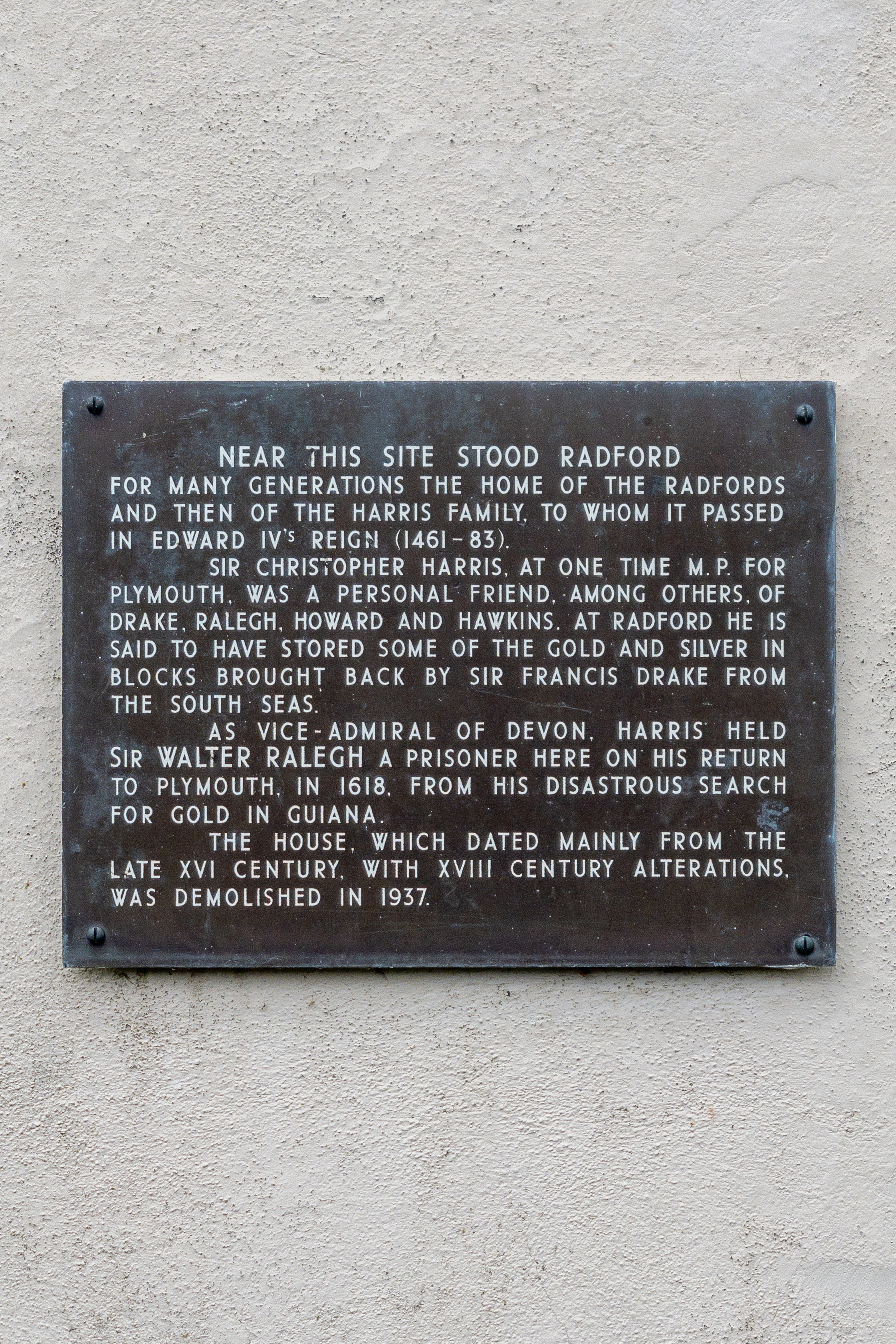 Commemorative plaque describing the former Radford House, on what is now a Grade II listed building in Plymstock, Plymouth.